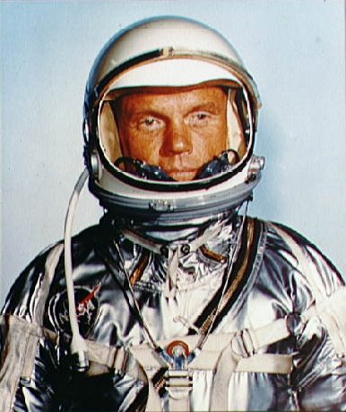 John Glenn in his Mercury pressure suit/spacesuit (1962).